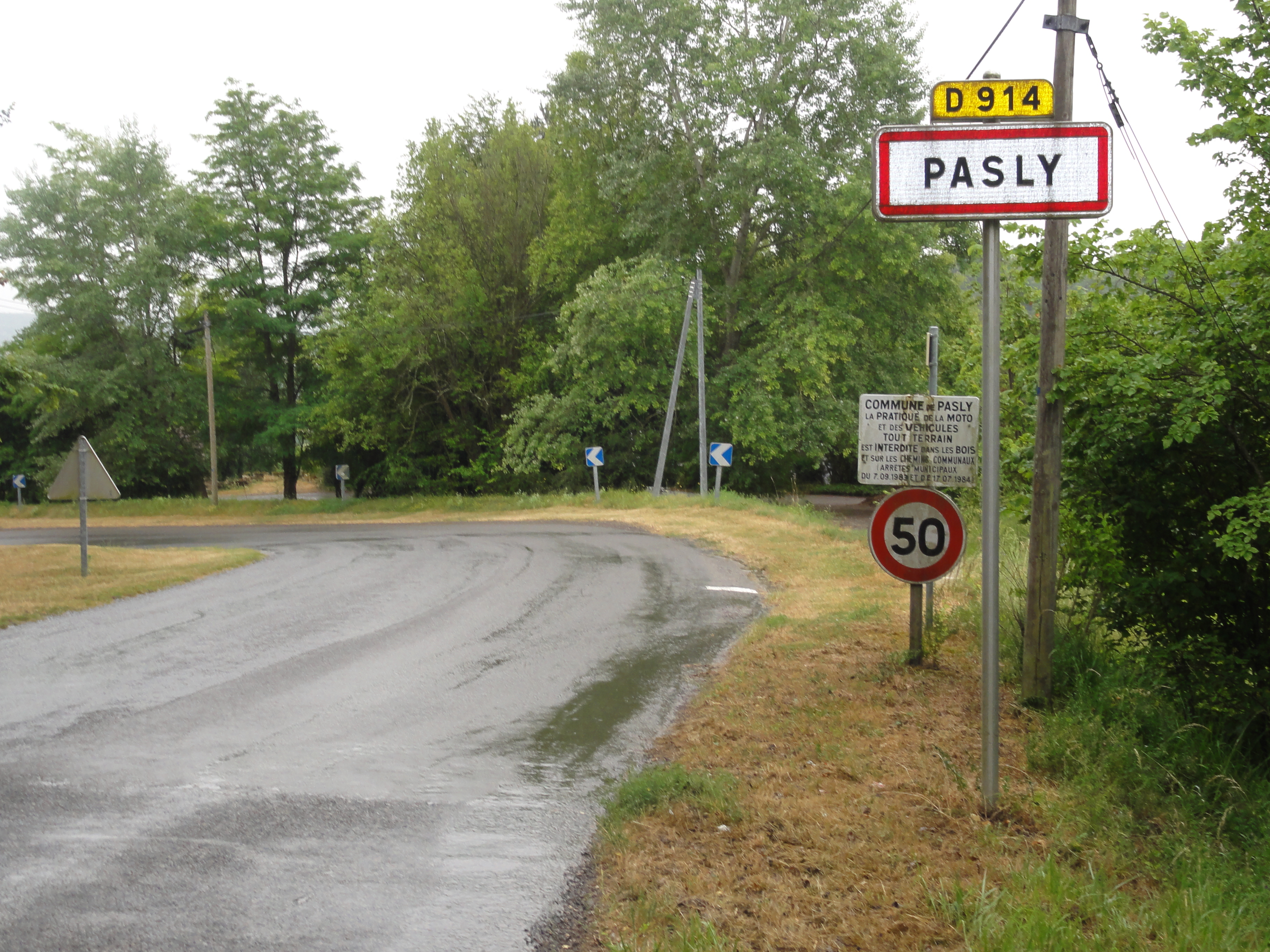 Pasly (Aisne) city limit sign